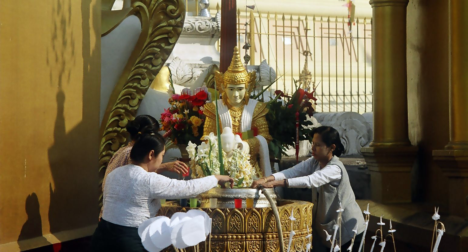 Planet guardian nat (gyo saung nat), Shwedagon Paya, Yangon, Myanmarမြန်မာဘာသာ: ရန်ကုန်မြို့ရှိ ရွှေတိဂုံဘုရား ဂြိုဟ်ဆောင့်နတ်